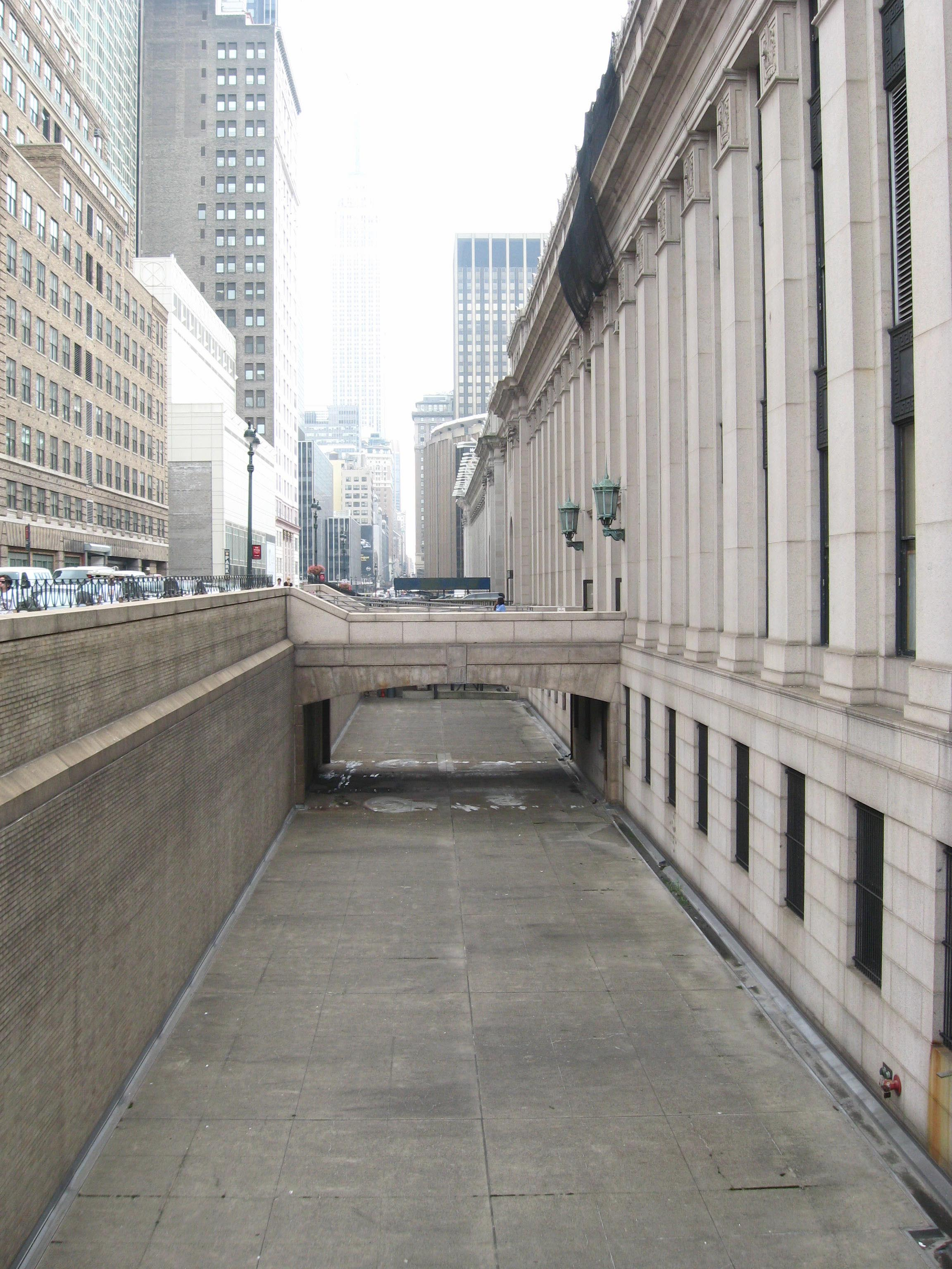 Looking east at Dry Moat on north side of James Farley Post Office on south side of 33d Street